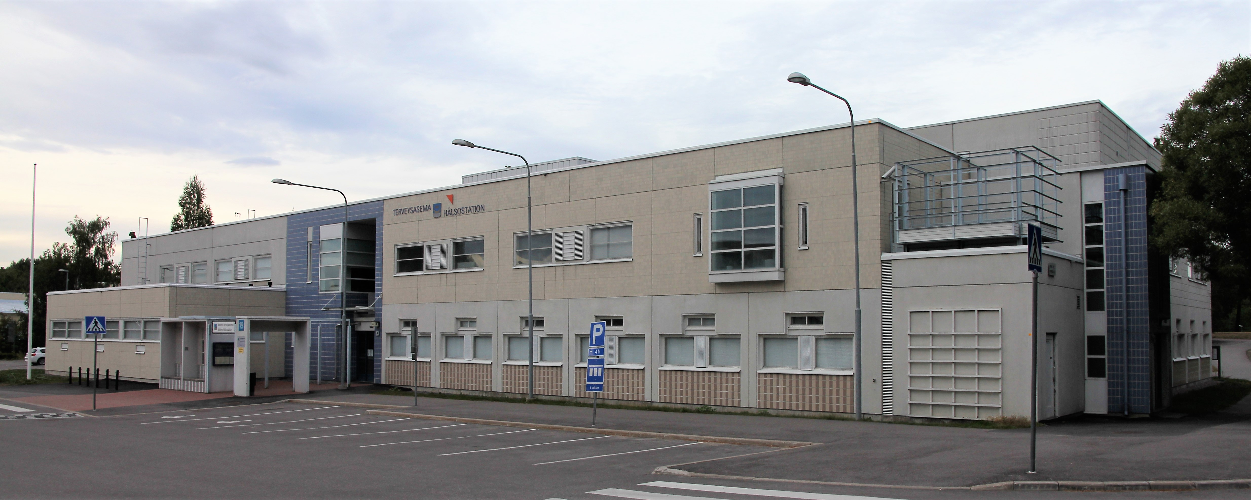 Malmi health centre (station), address: Talvelantie 4, 00700 Helsinki.